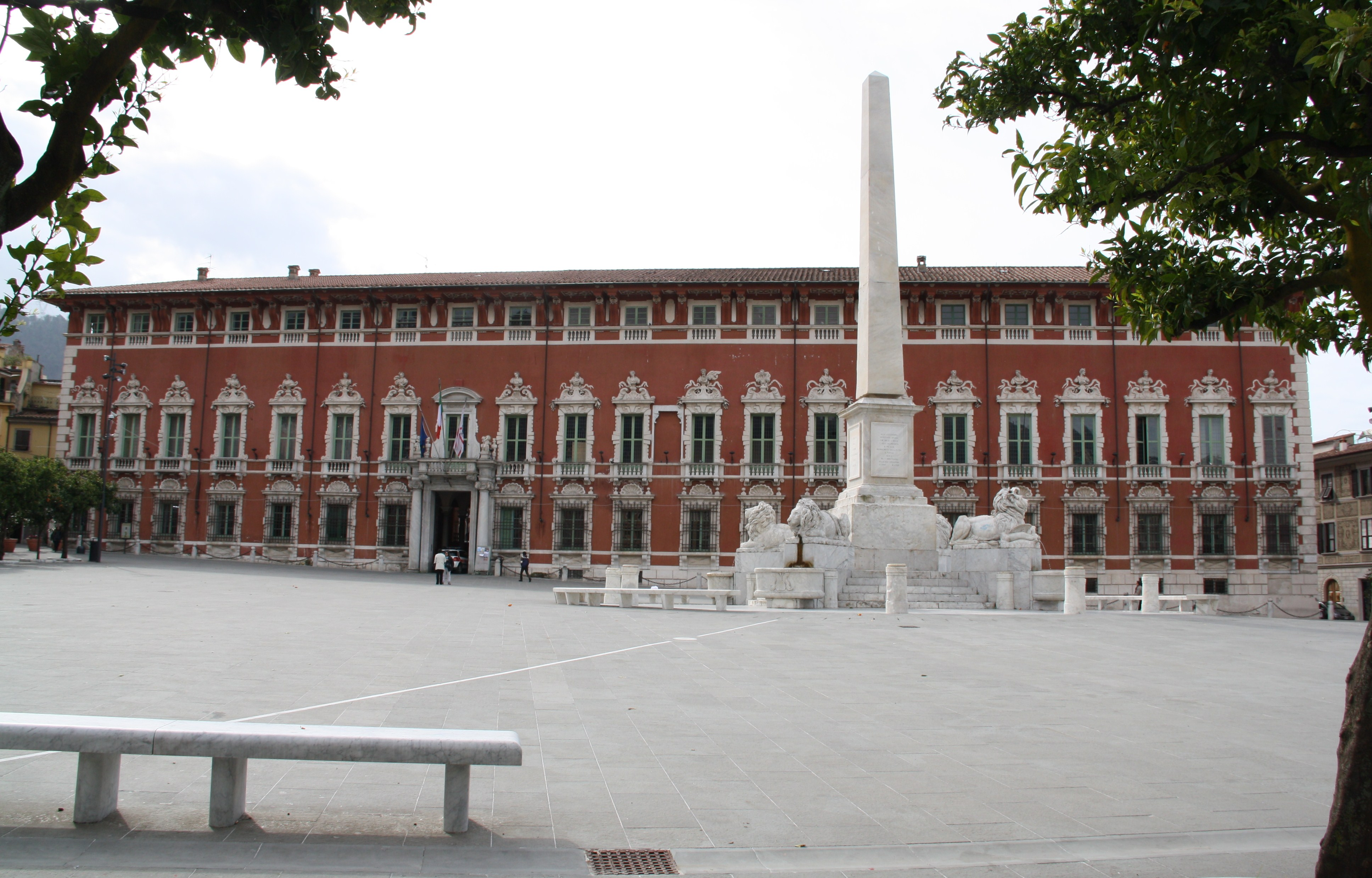 Italy, Tuscany, Massa, Piazza Aranci. The obelisk was placed in the center of the square and later was surrounded by the four white marble lions by Ludovico Isola in 1886. The red Ducal Palace in the background.